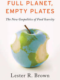 Title Page of Full Planet, Empty Plates: The New Geopolitics of Food Scarcity.